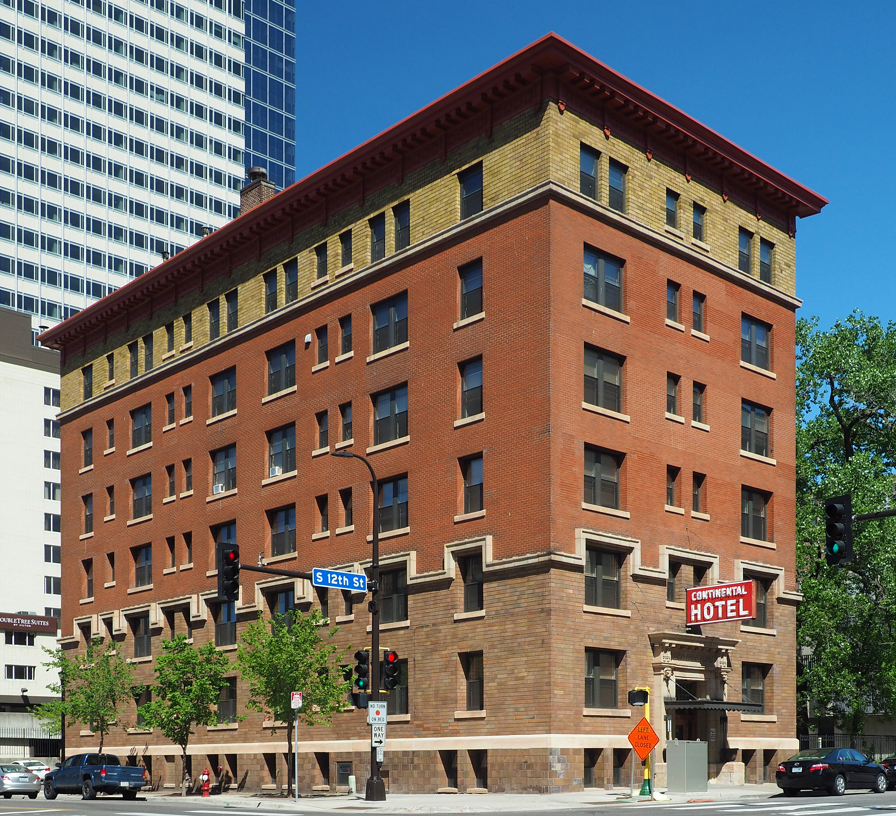 Ogden Apartment Hotel (now the Continental Hotel), 66 S 12th St, Minneapolis, Minnesota, USA. Viewed from the west.